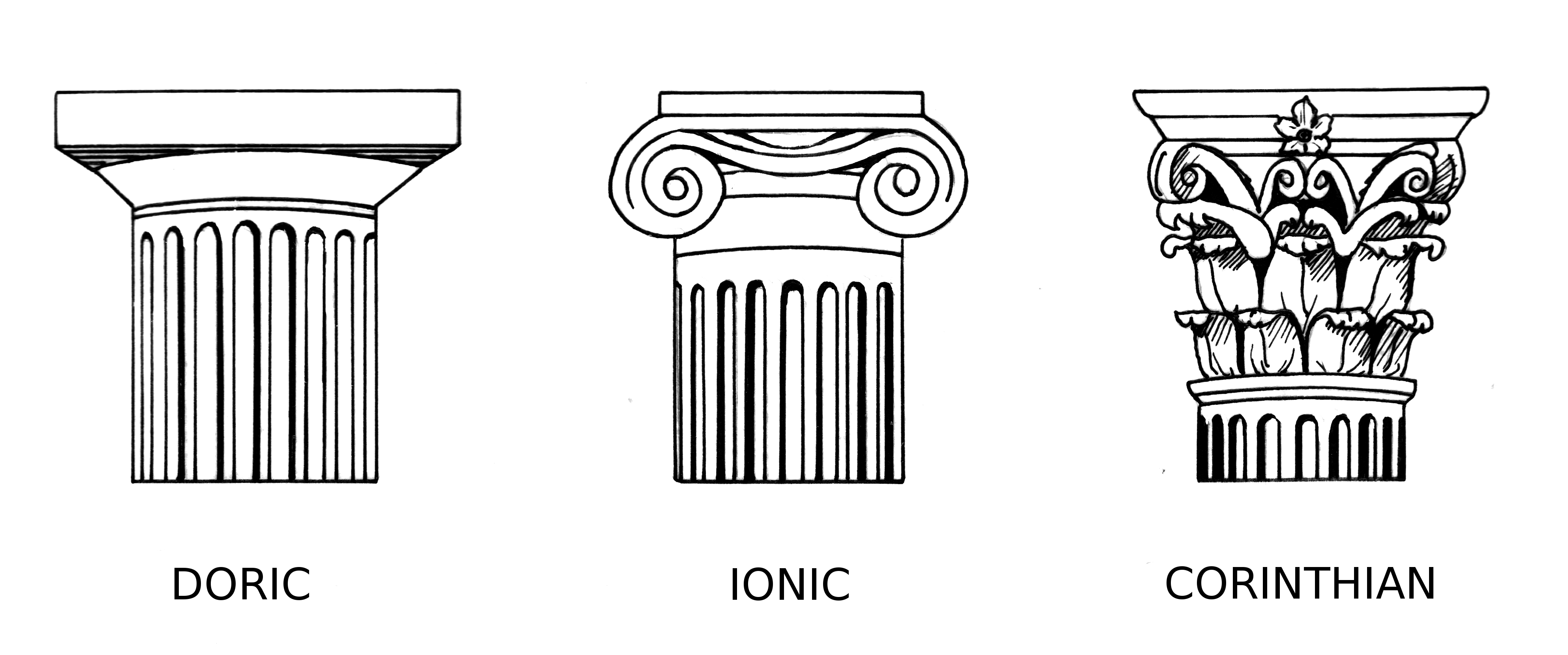 Line art drawing of Greek orders of building design.